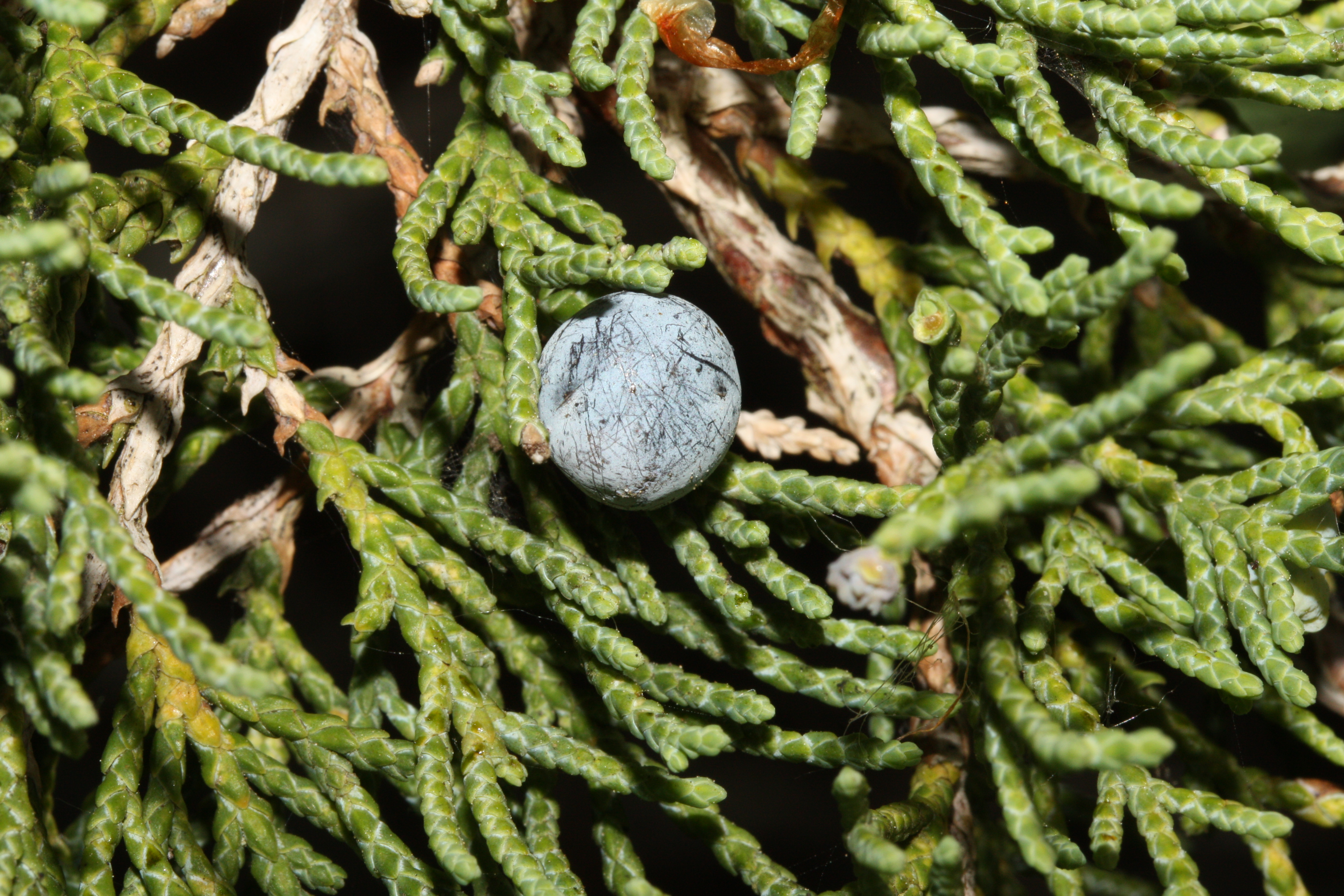 Seaside Juniper